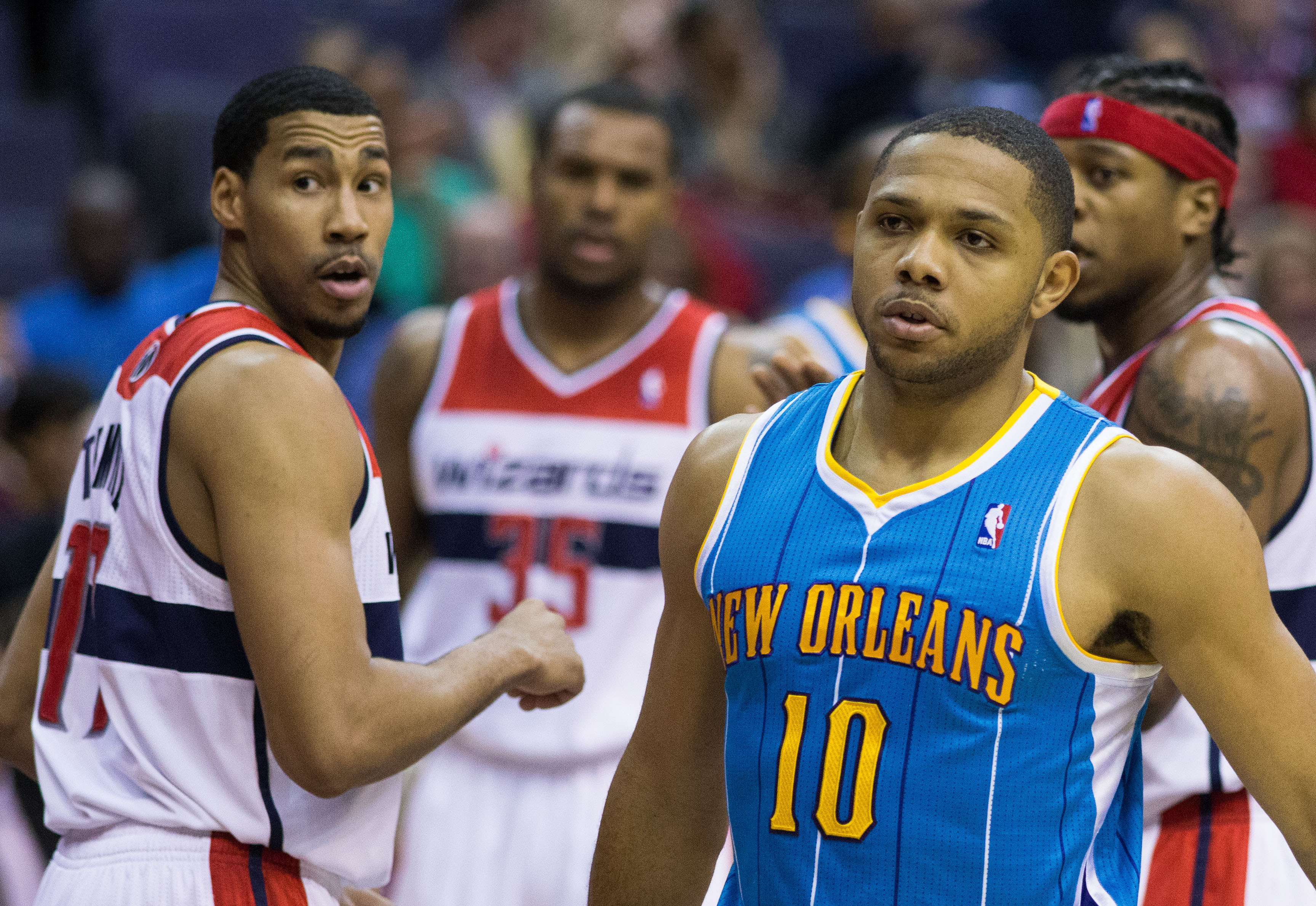 New Orleans Hornets at Washington Wizards March 15, 2013